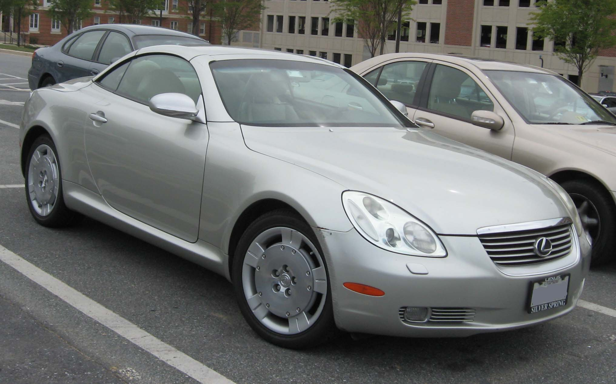 Lexus SC430 photographed in College Park, Maryland, USA.